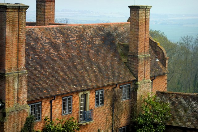 The Mansion at Port Lympne. The historic mansion and landscaped gardens were designed by architect Sir Herbert Baker for Sir Philip Sassoon during World War I. The house, which may be used for weddings and other functions, is situated in the Port Lympne Wildlife Park founded by John Aspinall.